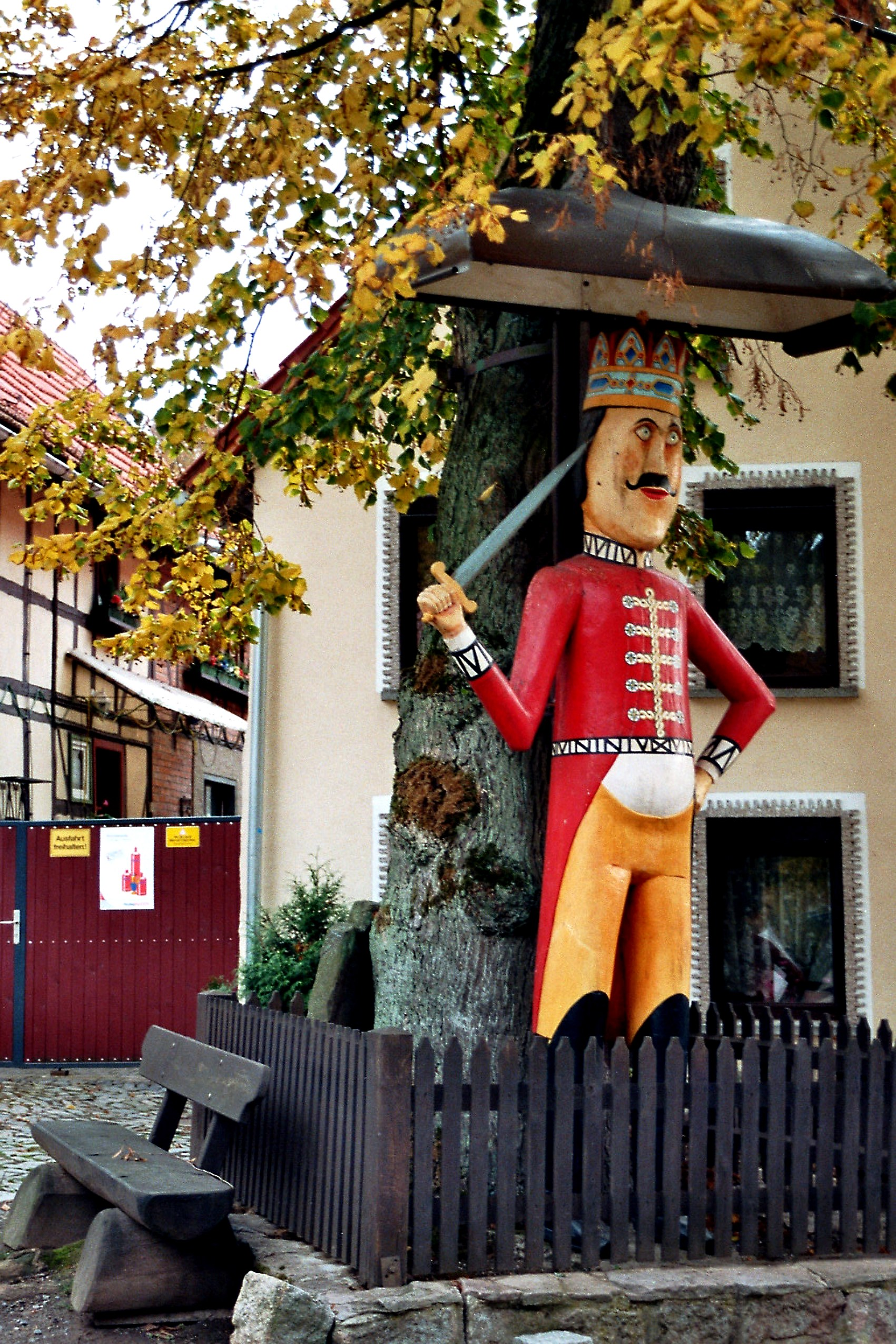 Questenberg (Südharz), the Roland This is a photograph of an architectural monument. 81737